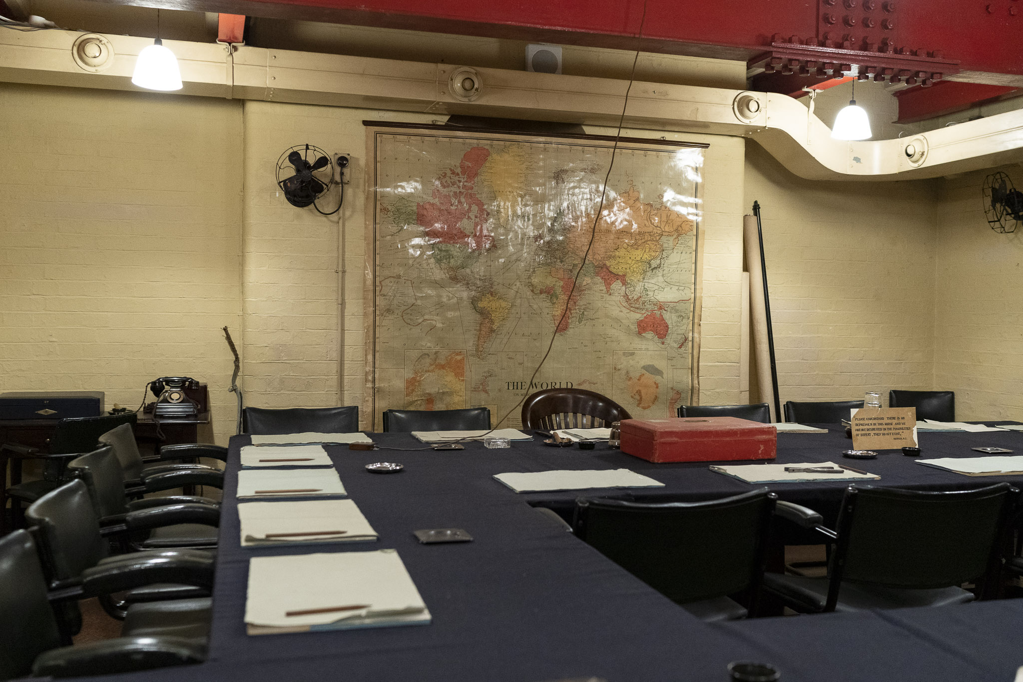 President Donald J. Trump and First Lady Melania Trump, along with British Prime Minister Theresa May and her husband Mr. Philip May tour the Churchill War Rooms Tuesday, June 4, 2019, in London. (Official White House Photo by Shealah Craighead)